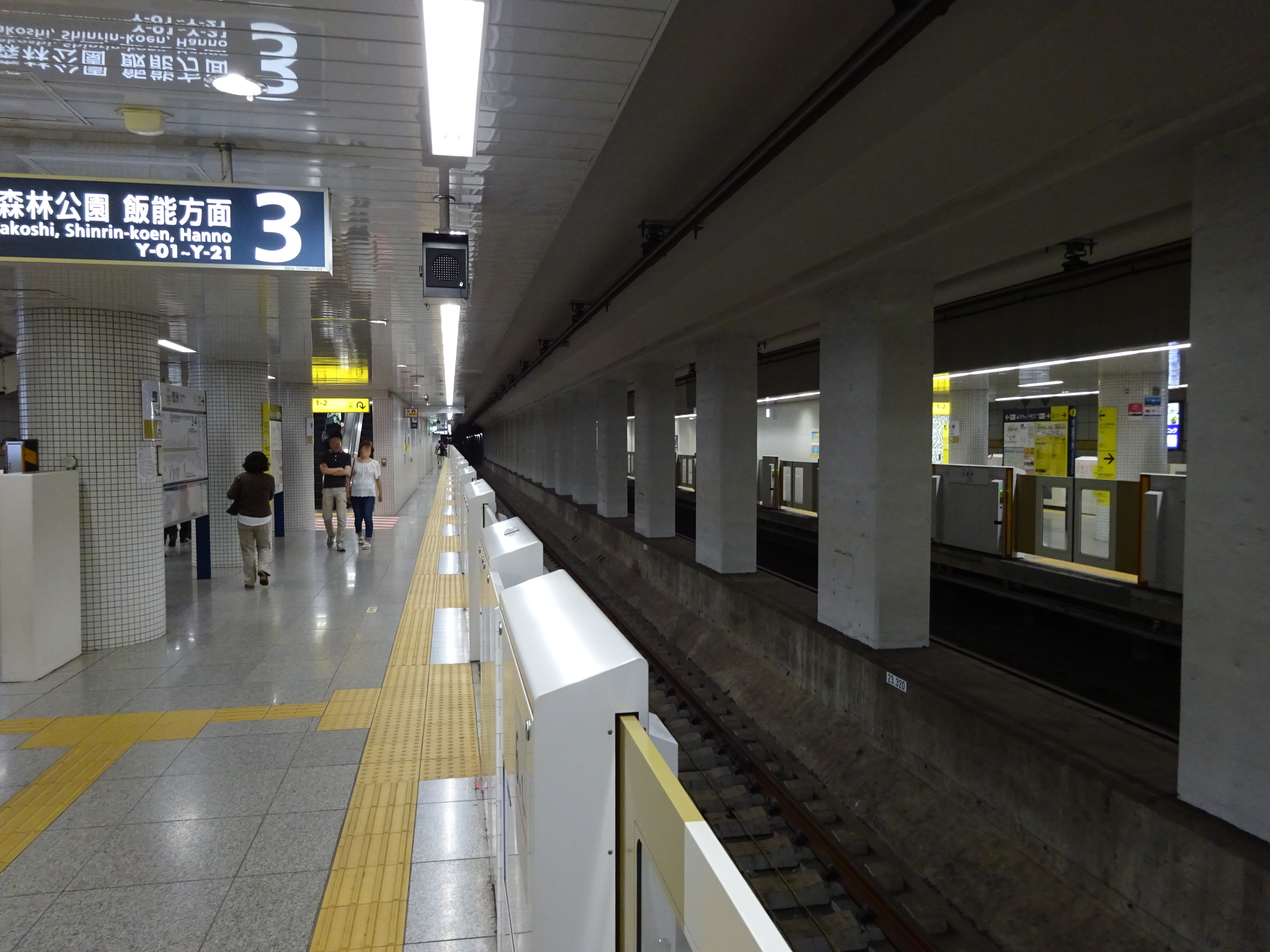 Platforms of Toyosu Station(Tokyo Metro)